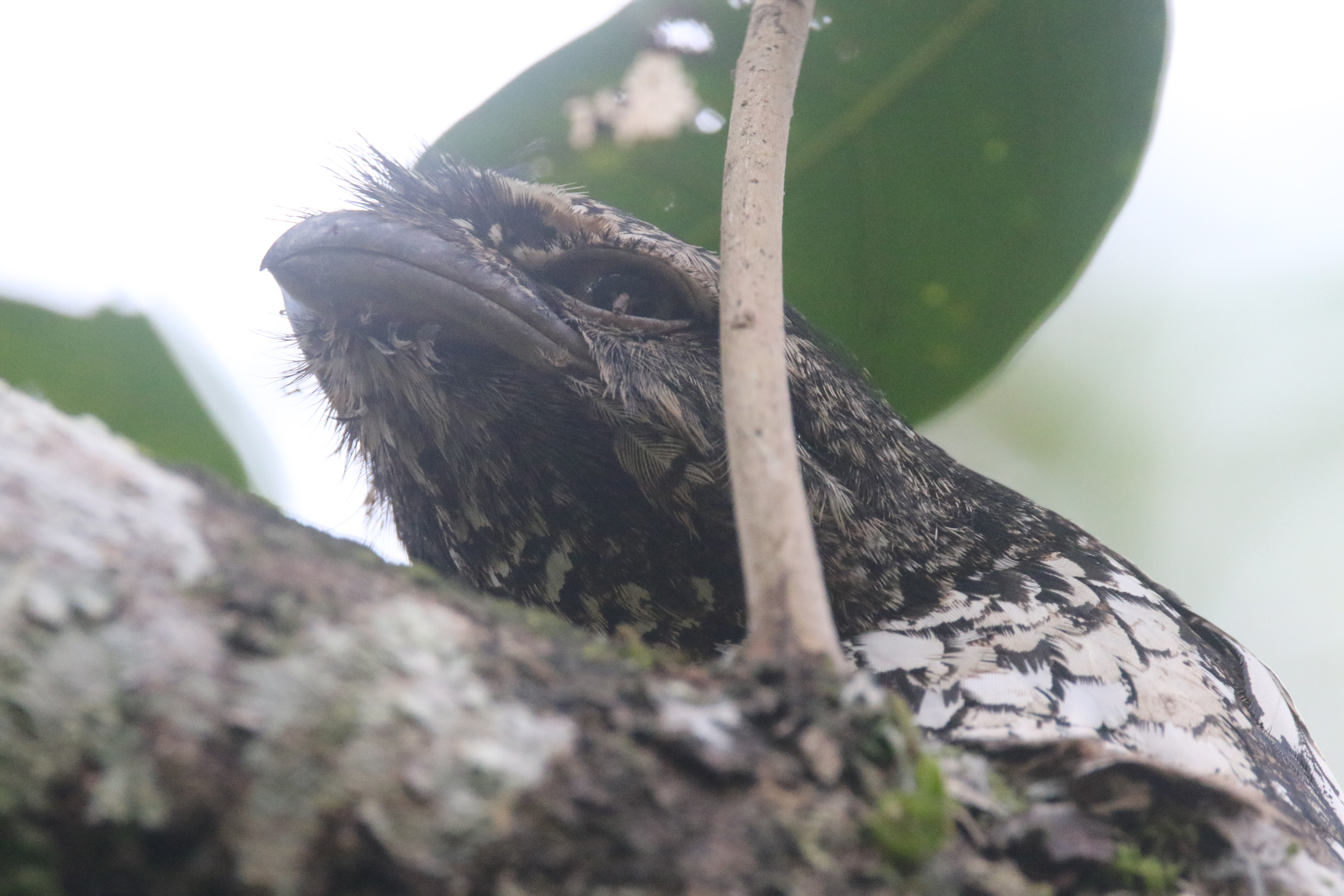 Tawny Frogmouth (Podargus strigoides) at Namang Village, Central Bangka, Indonesia